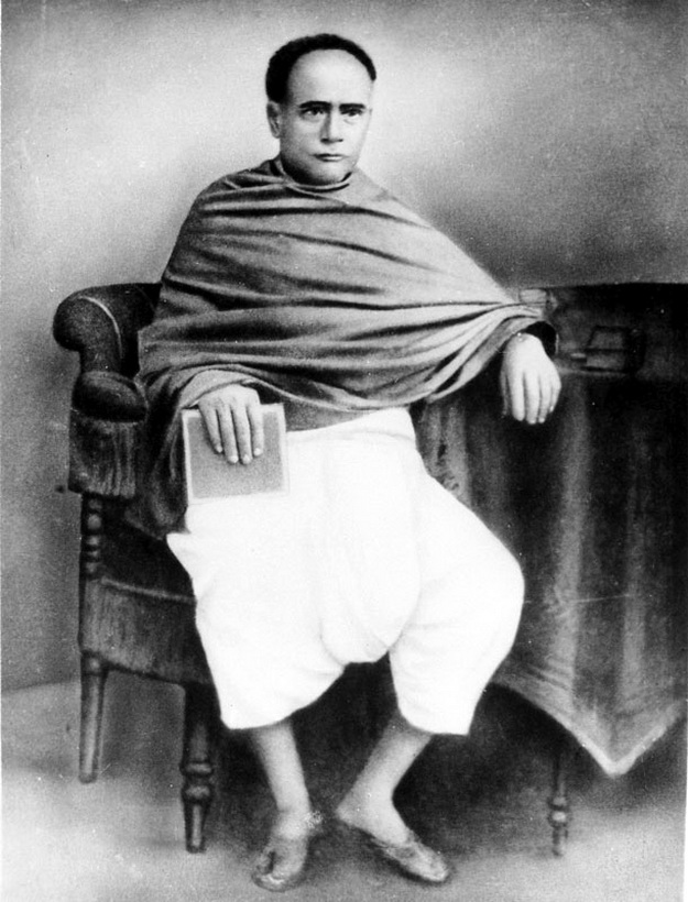 Portrait of Ishwar Chandra Vidyasagar (26 September 1820 – 29 July 1891), was an Indian Bengali polymath and a key figure of the Bengali renaissance